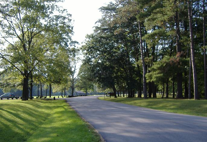 Entrance road of Clark State Forest, north of Henryville, Indiana.